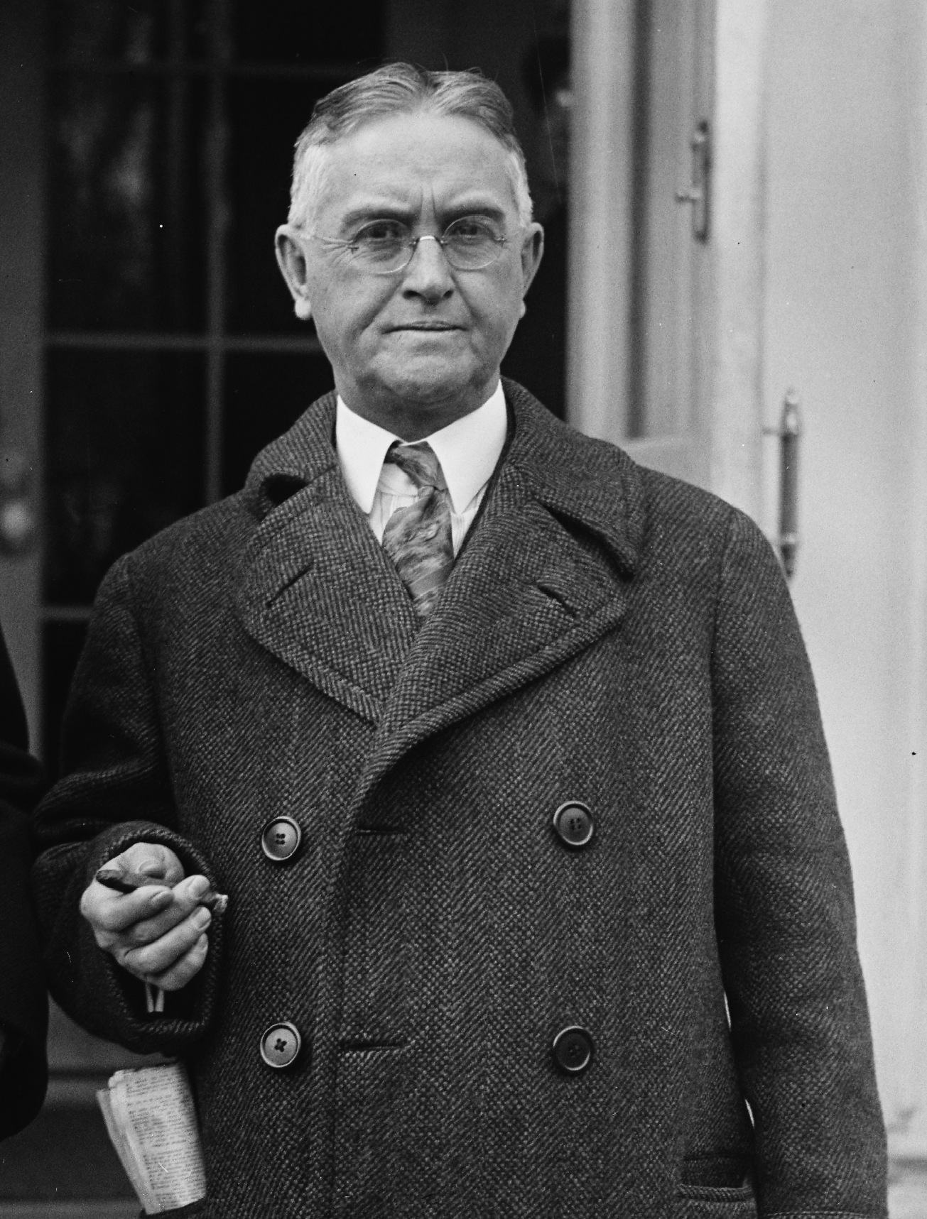 Governor of Nebraska is interesting caller at White House. Governor Adam McMullen of Nebraska, (right) called on President Coolidge at the White House today with Senator Robert B. Howell of Nebraska. Governor McMullen says that Nebraska will go strong for any presidential candidate who will help the farmer